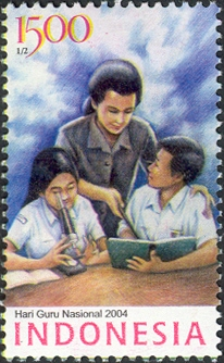 Stamps of Indonesia